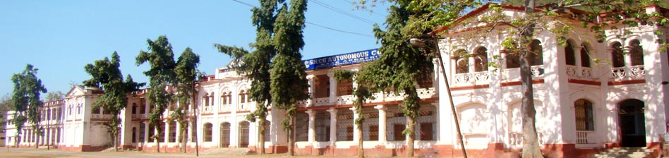 This Photo is uploaded by Mr. Santosh Sahu. This is a 125 years old college of paralakhemundi in South Odisha.